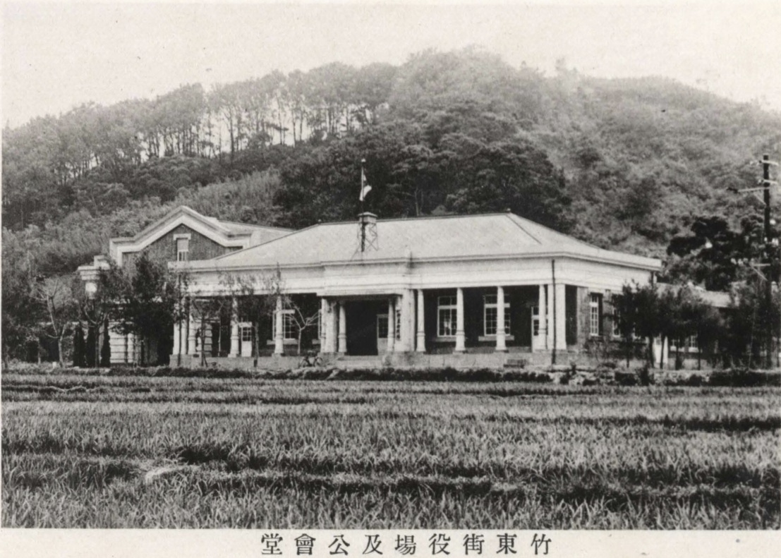 竹東街役場/公會堂